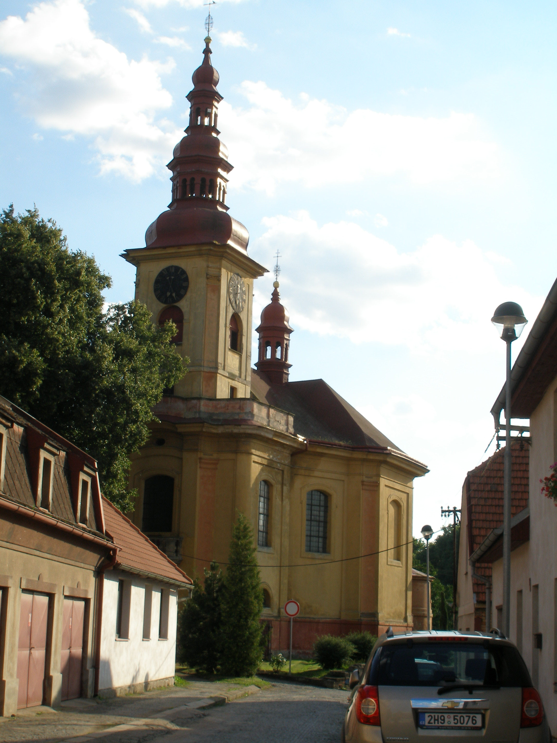 Kopidlno, Jičín District, Czech Republic. A view from town square towards St James the Great church.